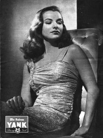 Pin-up photo of Ella Raines for the Aug. 17, 1945 issue of Yank, the Army Weekly, a weekly U.S. Army magazine fully staffed by enlisted men.